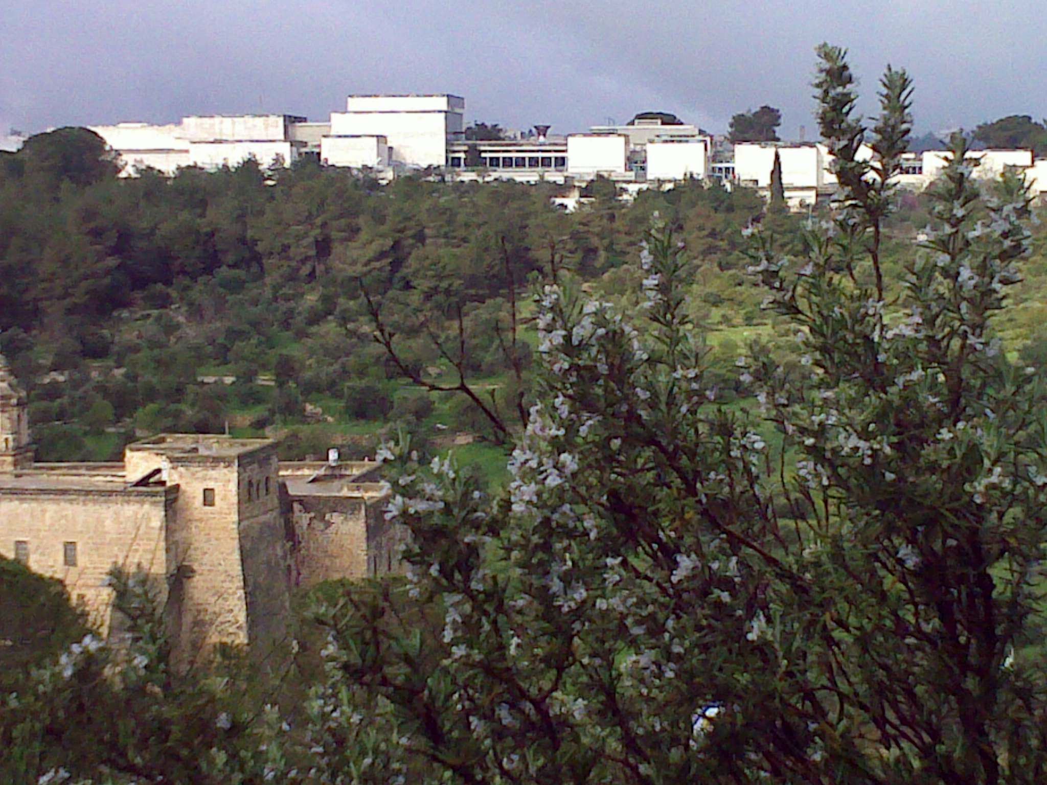 Israel museum, Hamatzleva valley, Monastery of the Cross, Jerusalem.